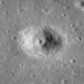 Bench crater, Mare Cognitum, on the moon.